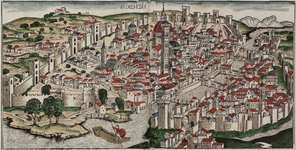 Colored woodcut town view of Florence by Hartmann Schedel. From the Nuremberg Chronicle in Latin edition published in 1493. Leaf number LXXXVII. Printed in Nuremberg by Anton Koberger in 1493. Lyric explanation from FOLIO LXXXVI verso and LXXXVII recto "This special woodcut covers fully two-thirds of these two folios, and appears to have been based on other panoramic views of Florence of about the time of the Chronicle. Let us enter the city by way of the Arno in the flat bottom boat that is being piloted without passengers or cargo at the river mouth. The Arno flows off to the right and is spanned by a number of bridges. The city lies on either side of the river and is fortified with walls and turrets. In the center of the town is the great cathedral church and before it the famous Campanile of Giotto. The church, called Santa Maria del Fiore (but more popularly known as the Duomo), is the largest and most important of the numerous Florentine churches. It was founded in 1298, but the façade was not finished until the nineteenth century. In actuality, the famous Campanile of Giotto is close by; and the woodcutter has given us some suggestion at least of the Baptistery which was built in the thirteenth century, and adorned with the beautiful bronze doors of Ghiberti in the fifteenth century. The city is pictured as nestling at the foot of the Apennines, and in the distance, to the left, there is a suggestion of another city, probably Fiesole. Source: From the first English translation (in 2010) of Schedel's "Chronicles of Nurenberg" where he speaks of the history of Florence and where that magnificent illustration is found.